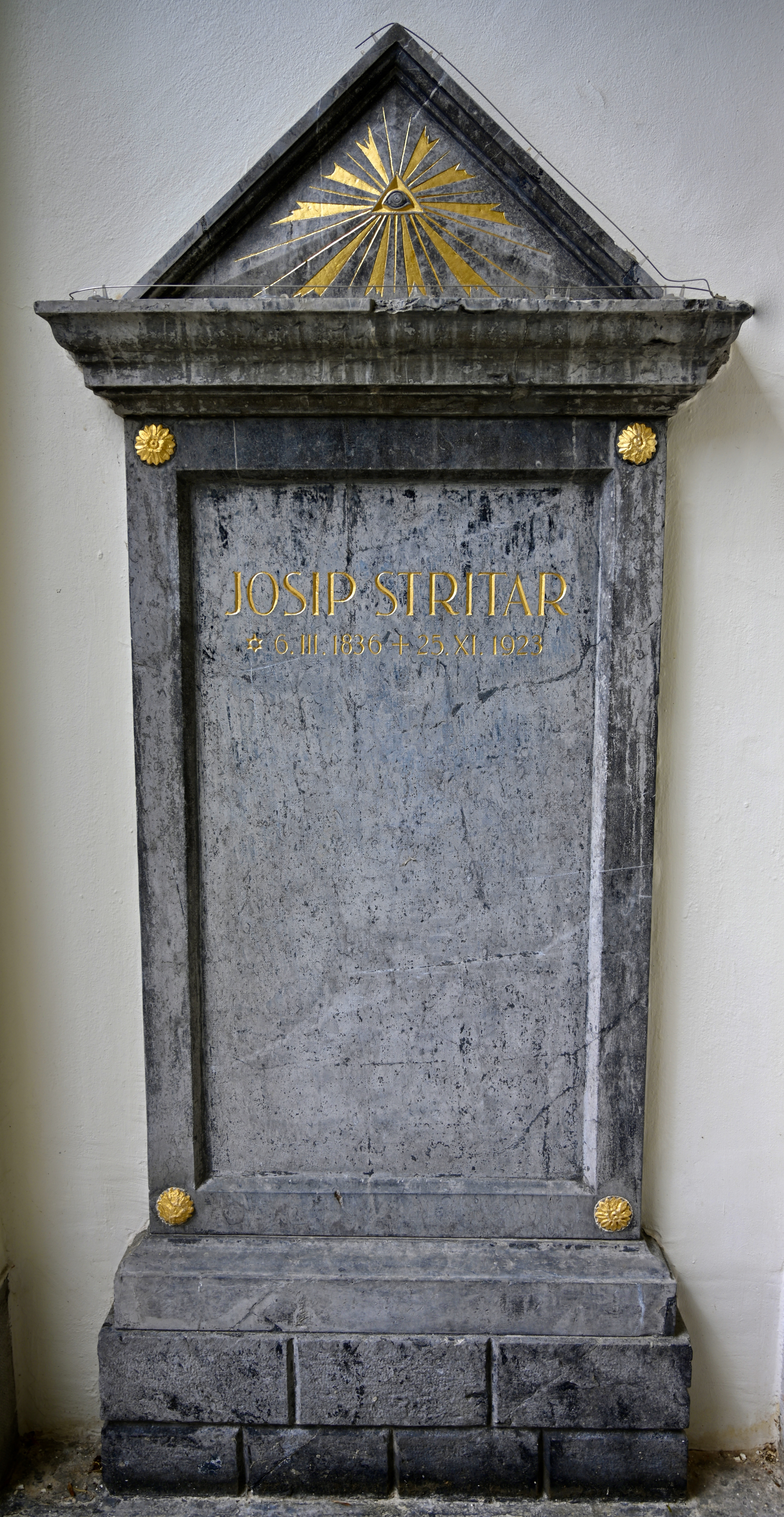 Tombstone of Josip Stritar, Slovenian author, at Navje in Ljubljana